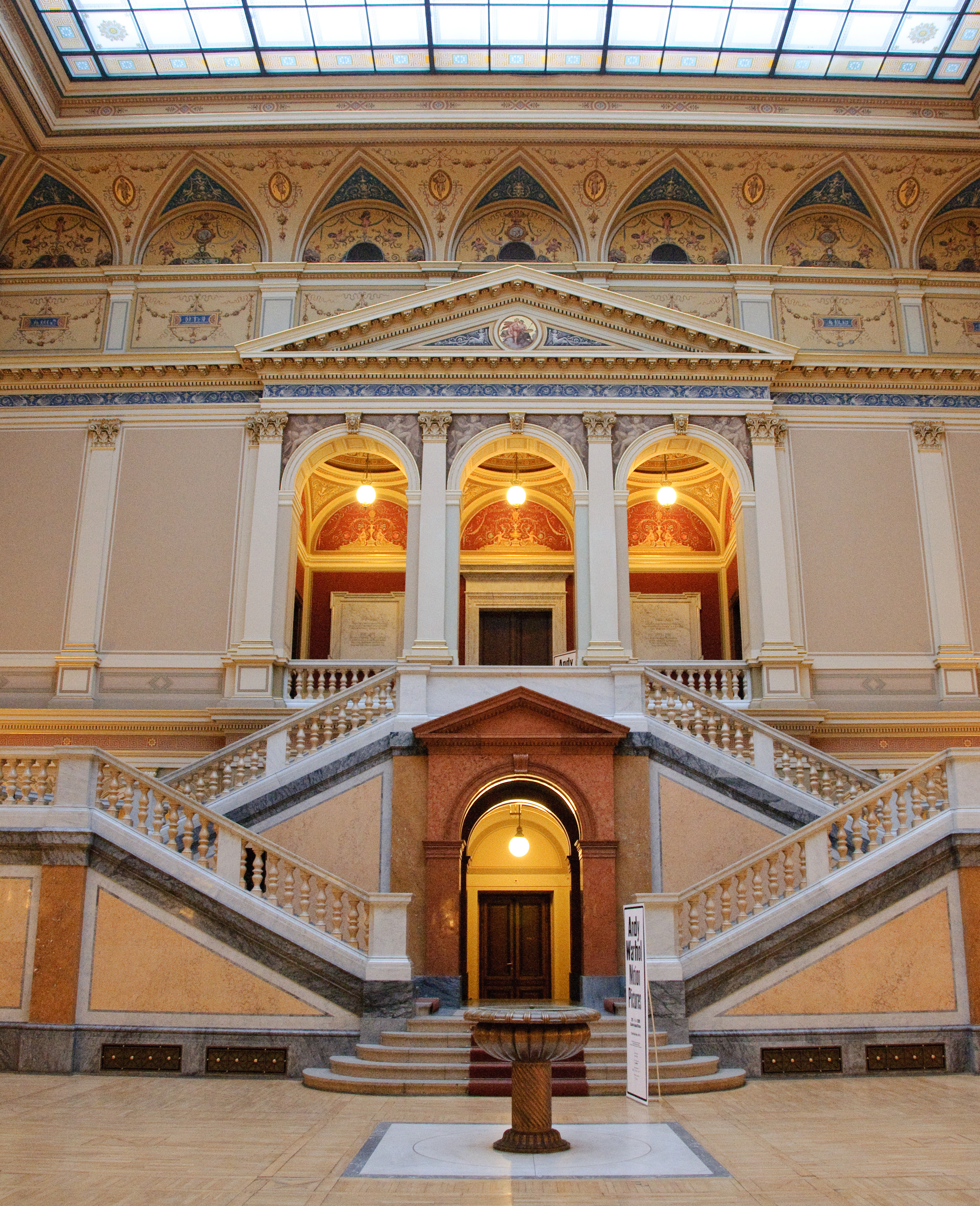 The entrace hall of the Rudolfinum in Prague